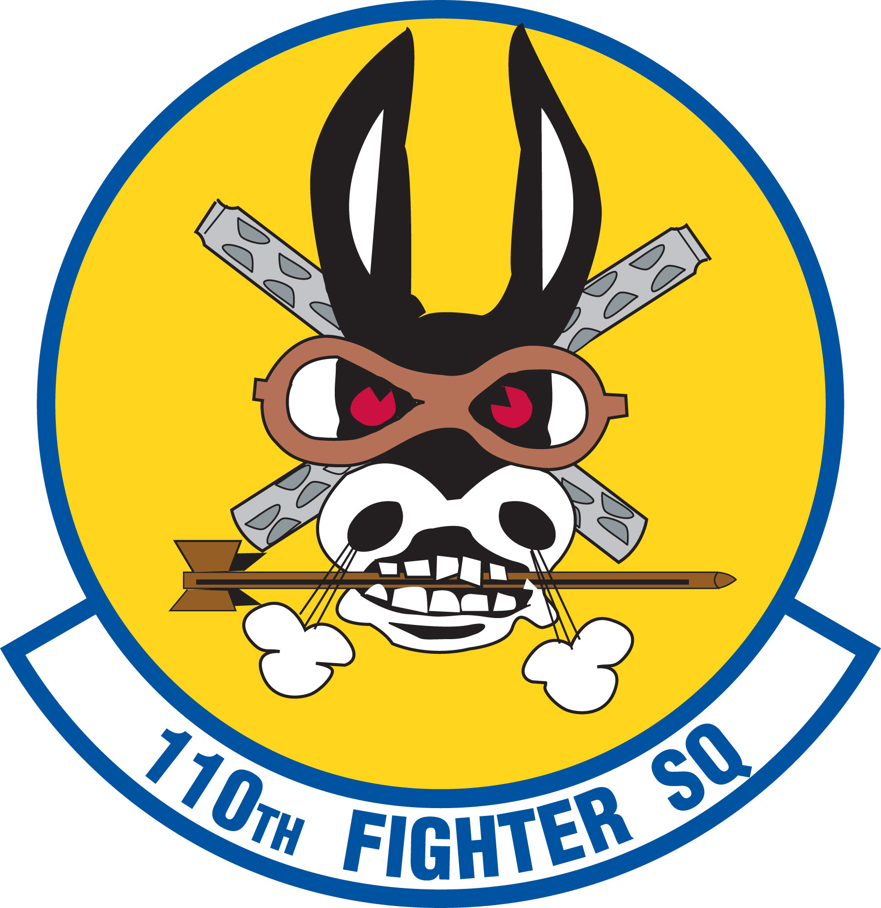 Emblem of the USAF 110th Fighter Squadron, Missouri Air National Guard.